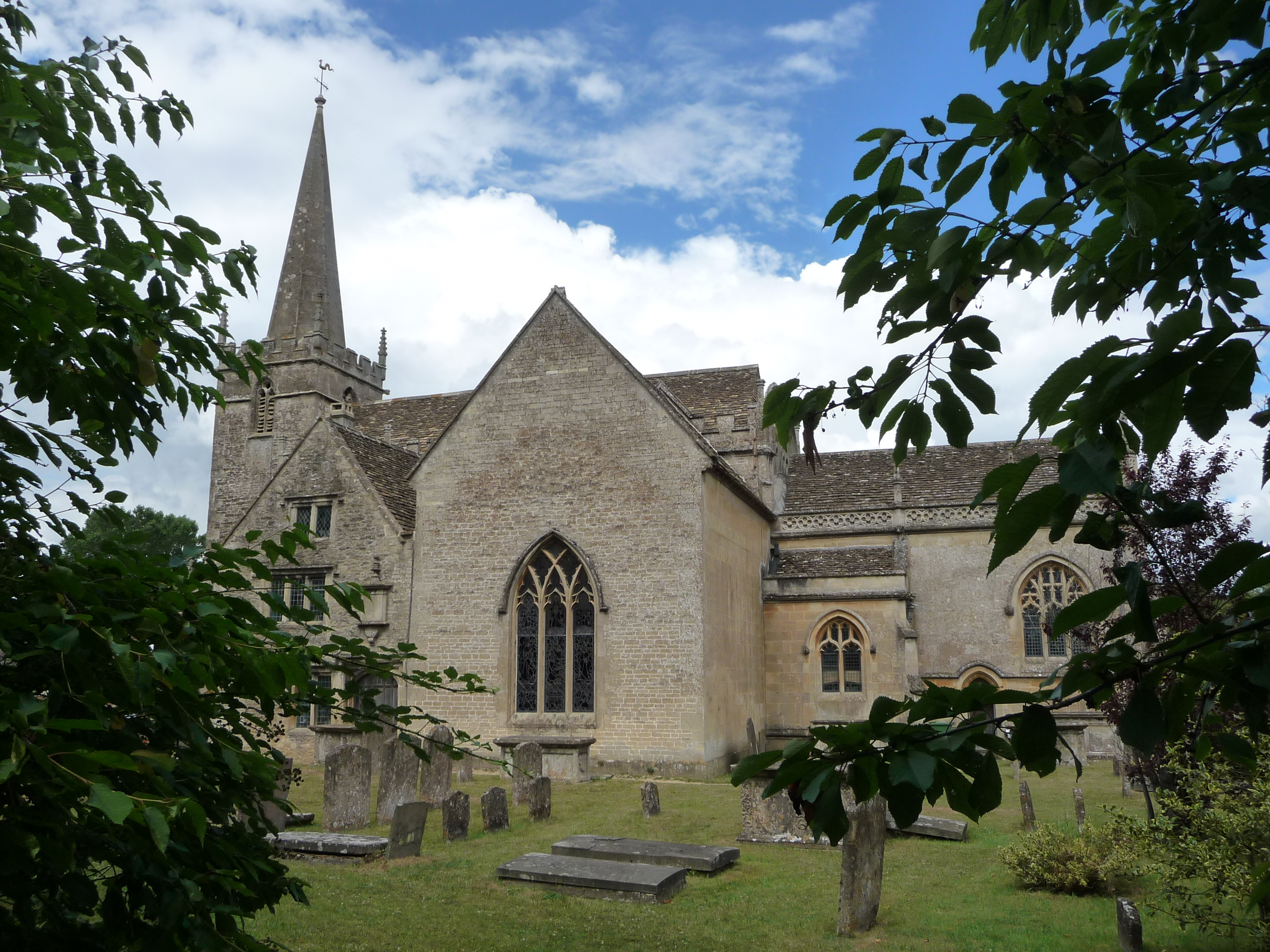 Saint Cyriac Lacock